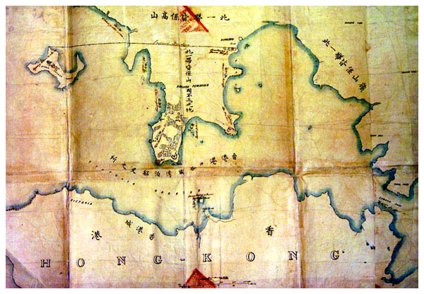 Map of Hong Kong in First Convention of Peking in 1860. The copy is in the Public Record Office of Hong Kong Government.